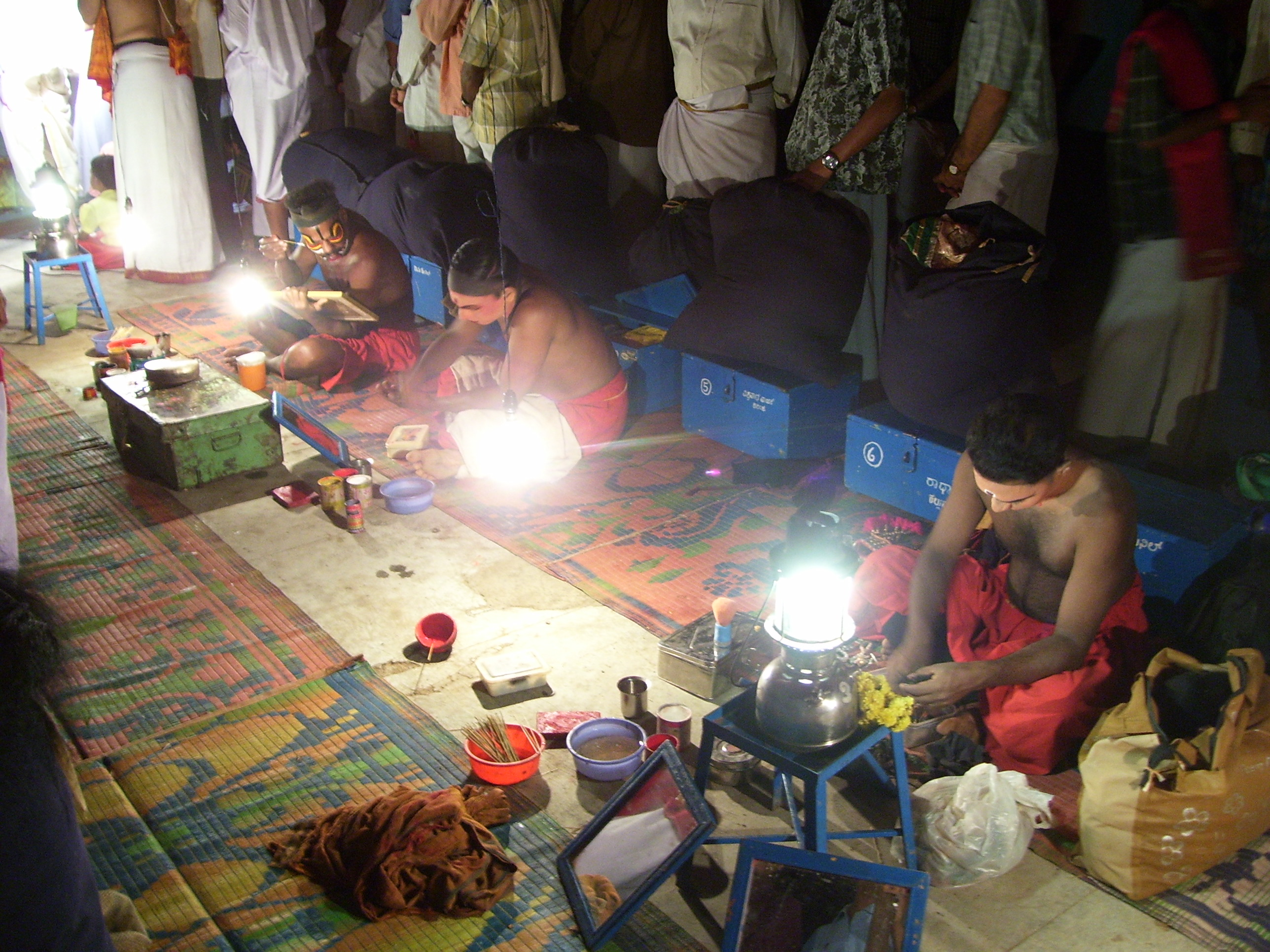 The performers of Yakshagana do their own makeup.